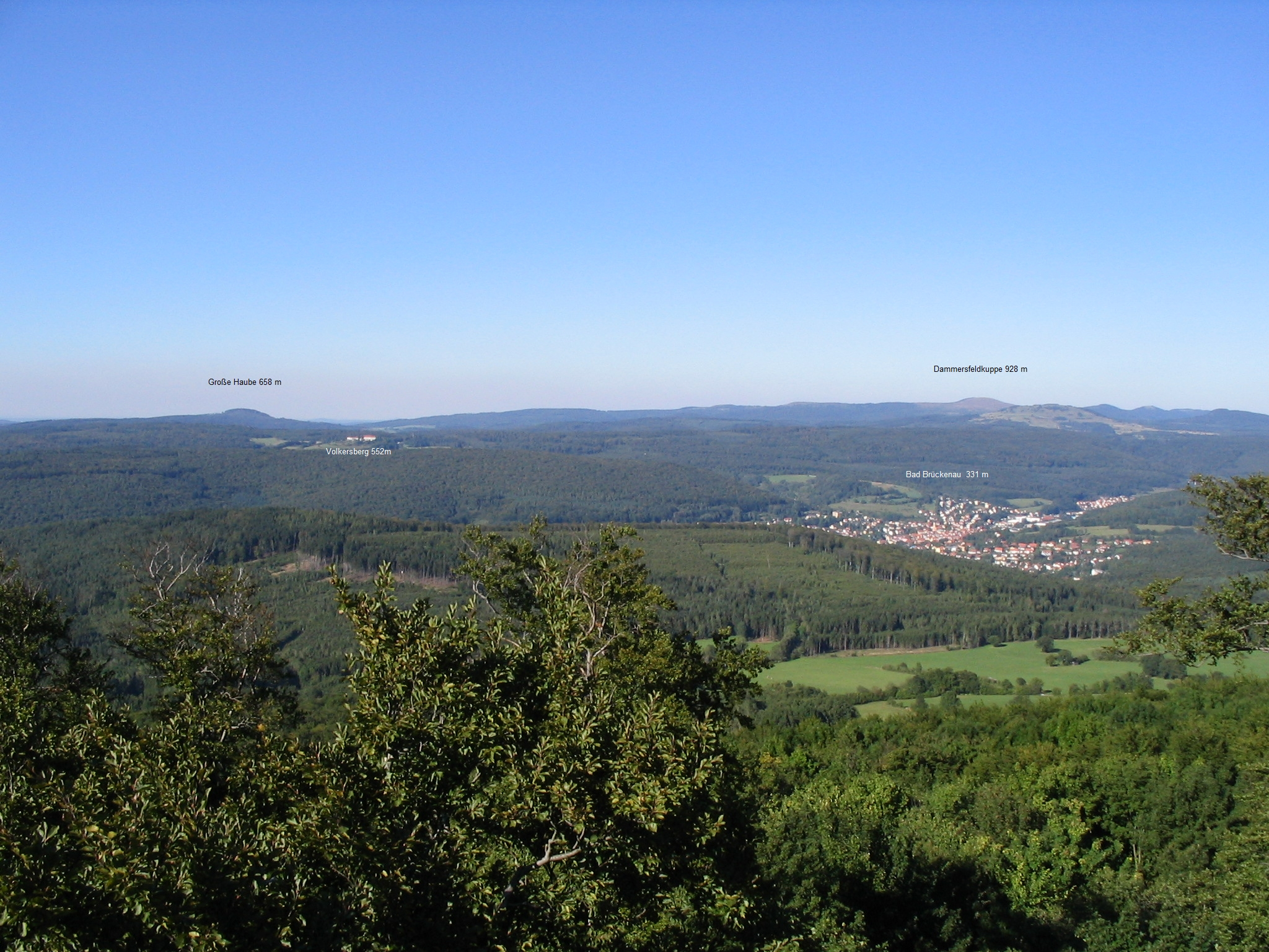 View from the Dreistelzberg (660m) to North-East